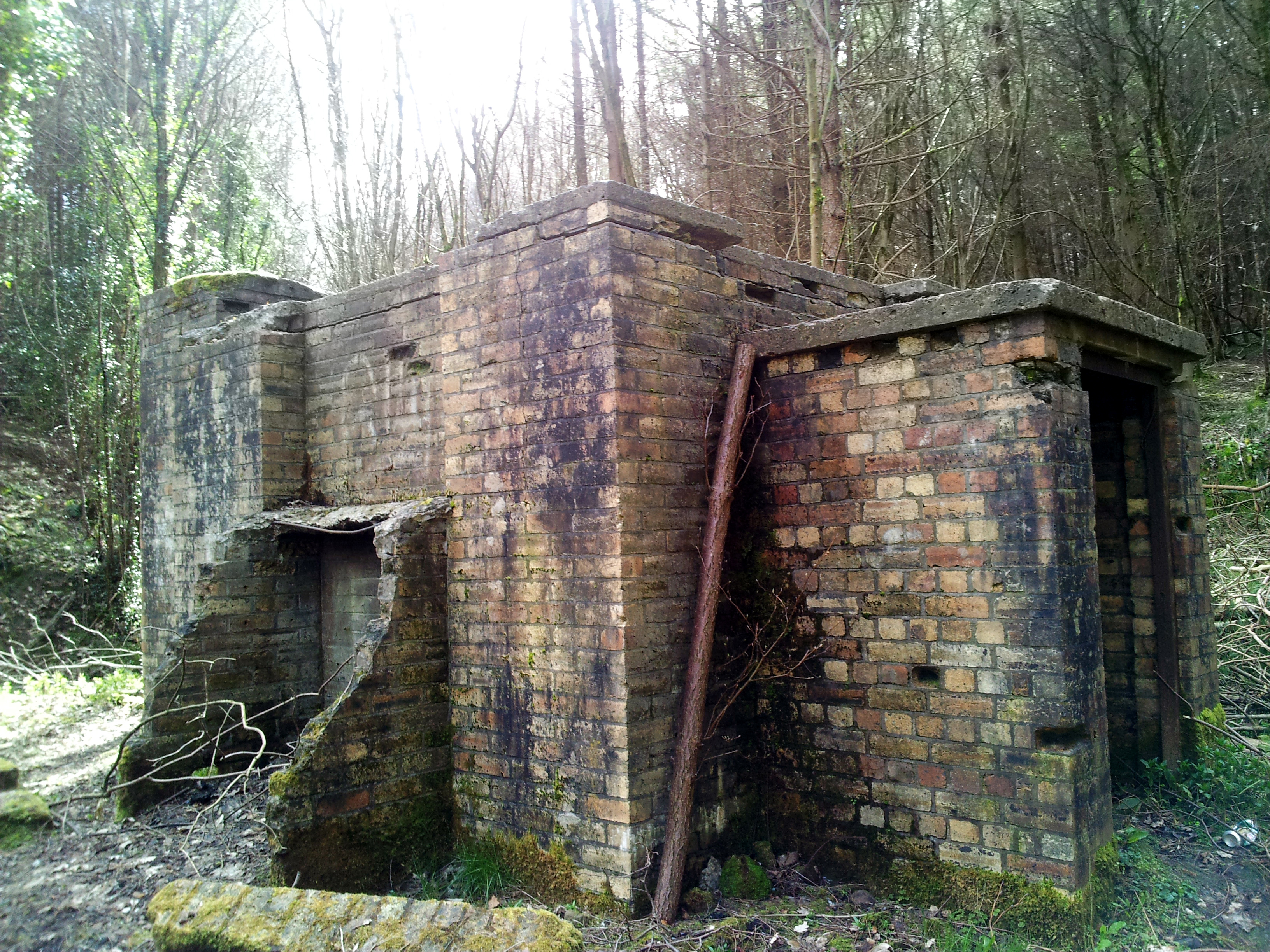 The derelect airlock over the Hollinside Shaft of Axwell Park Colliery, viewed in 2014, 31 yeas after it was finally abandoned. The shaft is situated in Clockburn Lonnen, a steep wooded valley roughly a mile to the south of the other shafts, which were just off Whickham Bank. The colliery closed in 1954, two years after miners from Marley Hill Colliery began working the coal seams beneath Hollinside and Gibside via the newly constructed Clockburn Drift. The Hollinside Shaft was given a new lease of life when the NCB fitted a fan to ventilate these workings, which were some distance from Marley Hill Colliery itself. It was finally abandoned in 1983, when the drift closed along with Marley Hill colliery, and has been backfilled with soil and rubble.